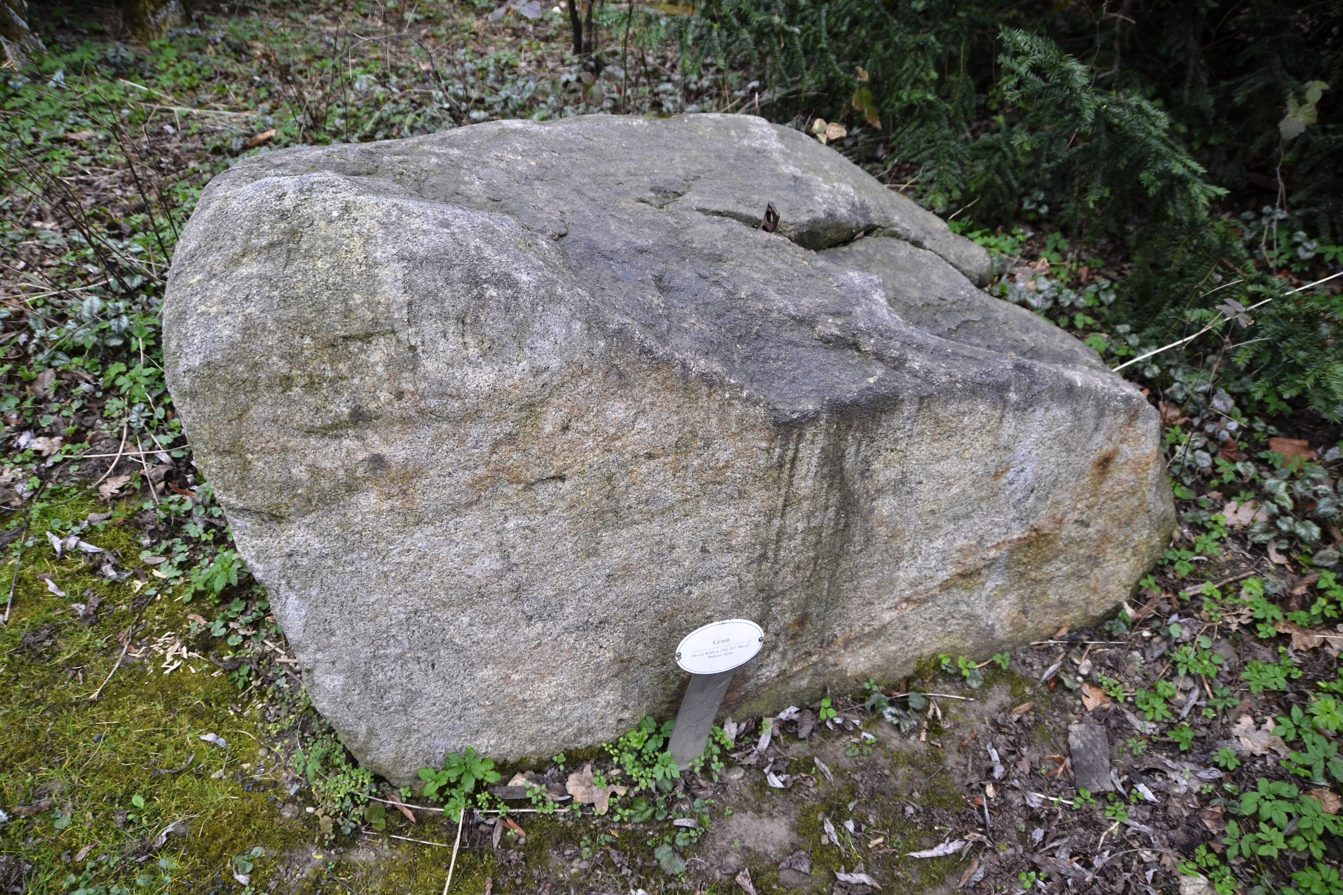 Granite of Devonian/Carboniferous age from the Stubai Alps. This rock is on display at the geological public collection of the Alpines Museum in Munich.